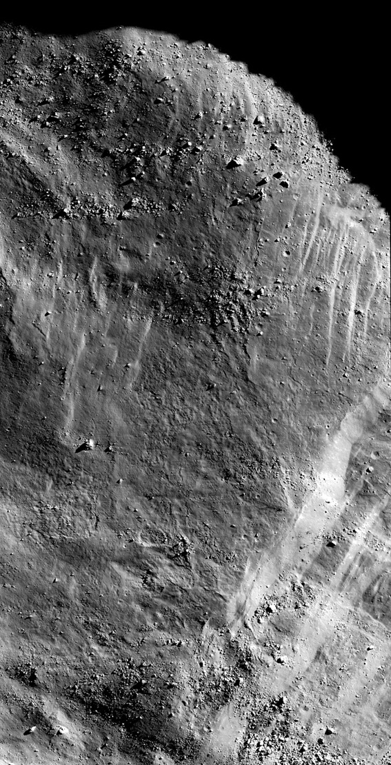 Lunar crust layers in Ryder crater - image LROC NAC M113012783LE